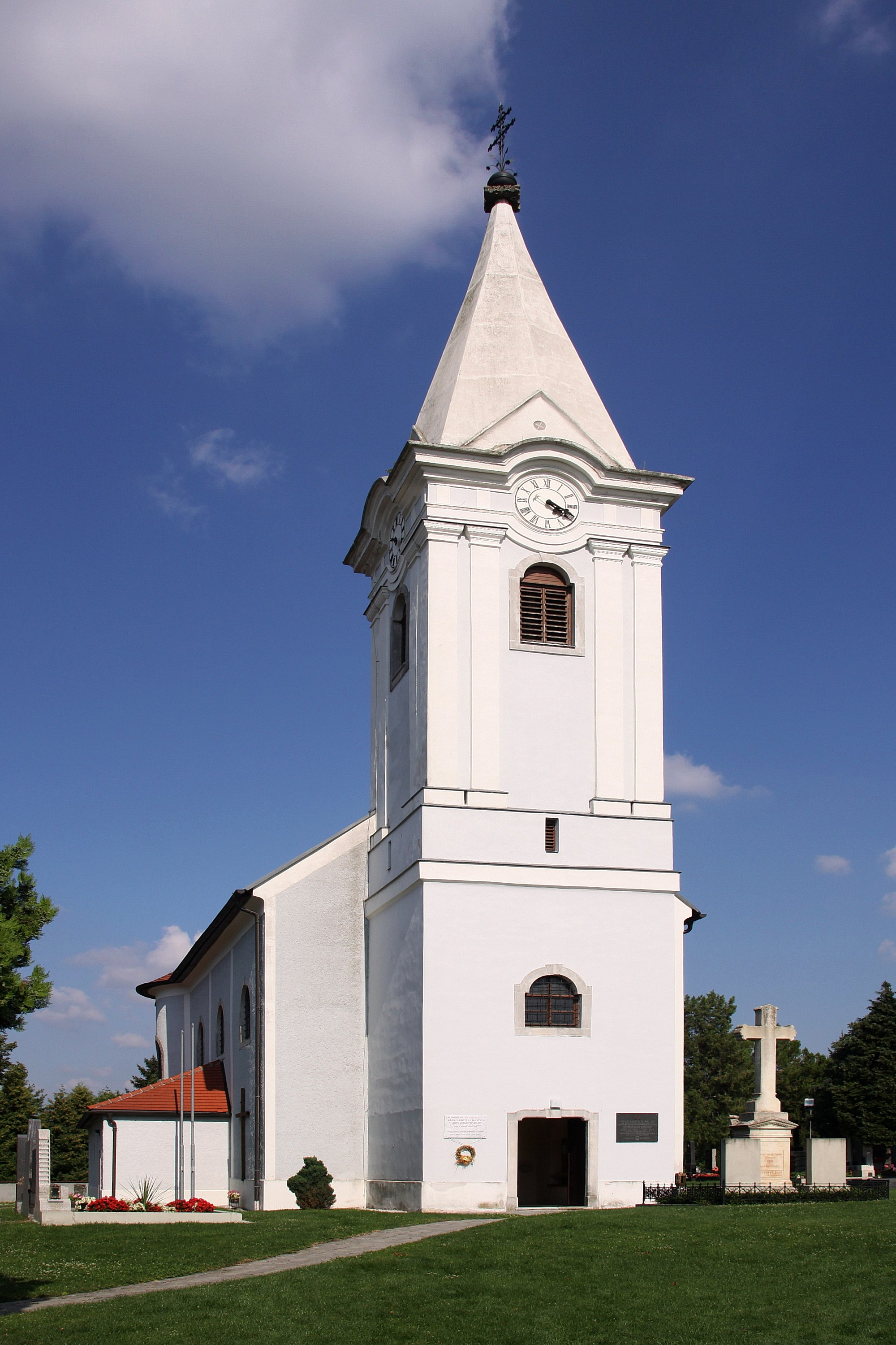 Parish church Saints Peter and Paul - Zillingtal Object location47° 48′ 47.3″ N, 16° 24′ 23.17″ E